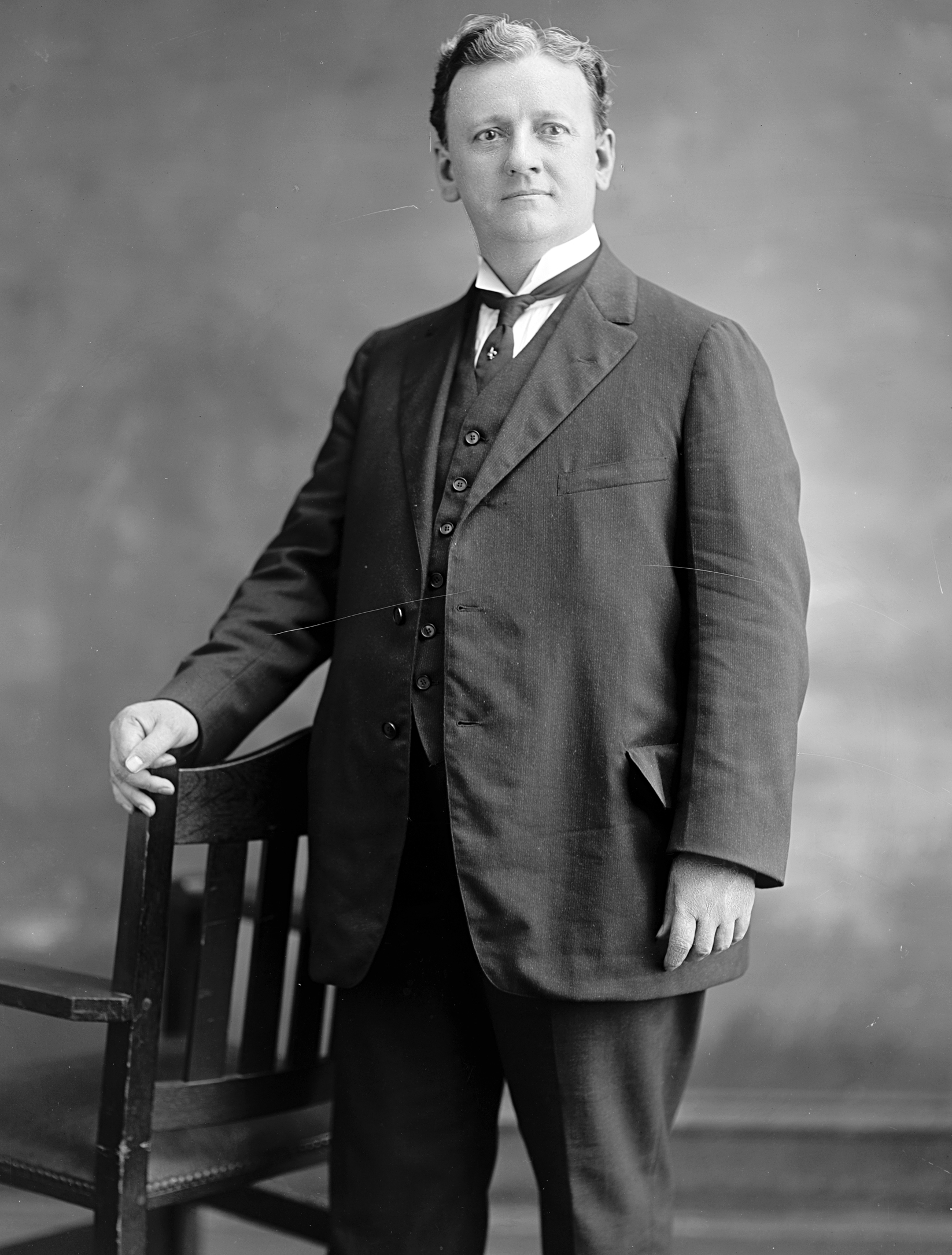 Michael Joseph Gill, US Representative from Missouri